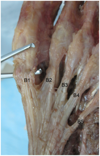 Figure 2. Five central part plantar aponeurosis bundles. B, bundle.